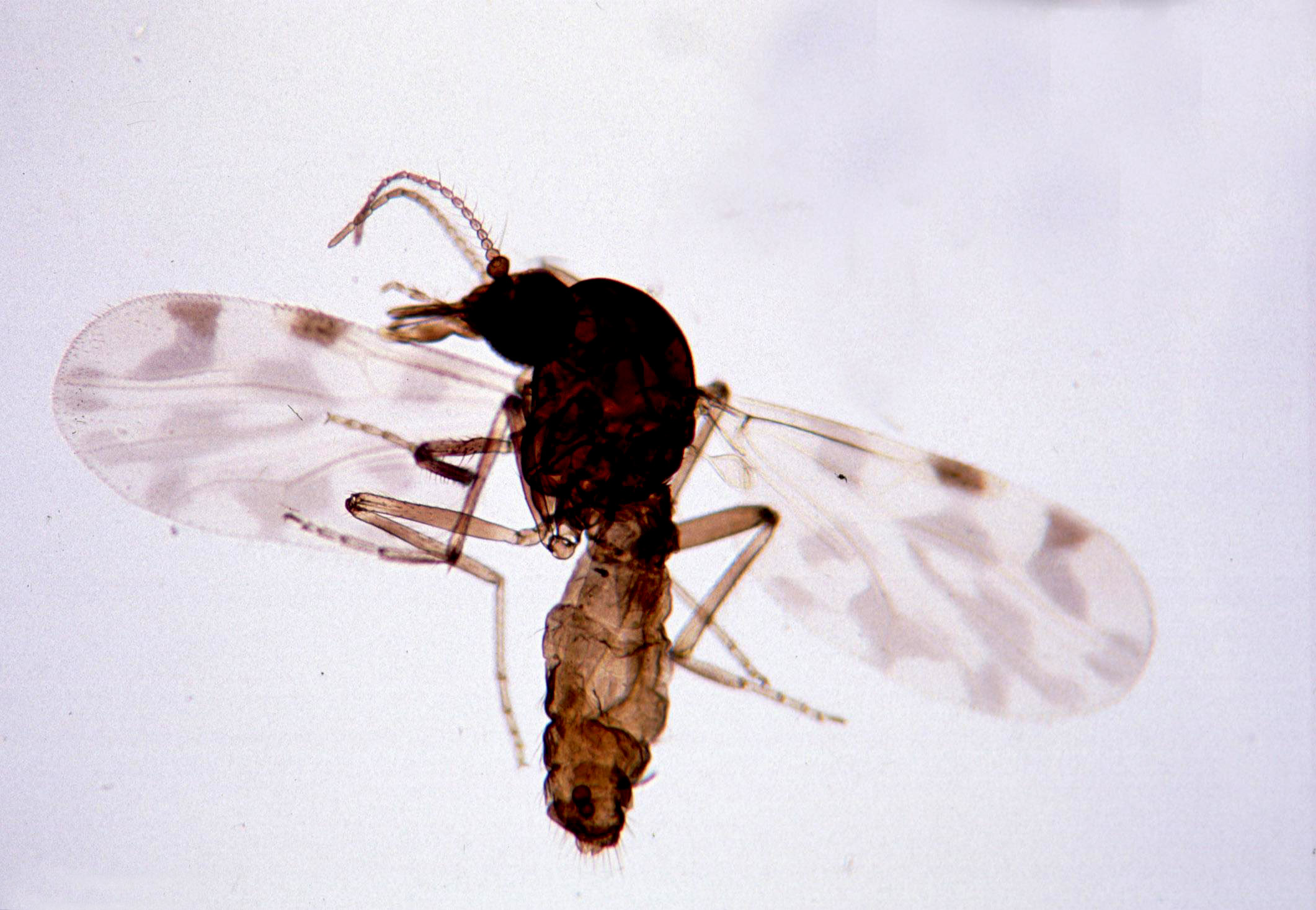 Adult female blood sucking midge, Culicoides imicola, from Africa. Transmitter of virus of bluetongue disease of sheep and cattle.